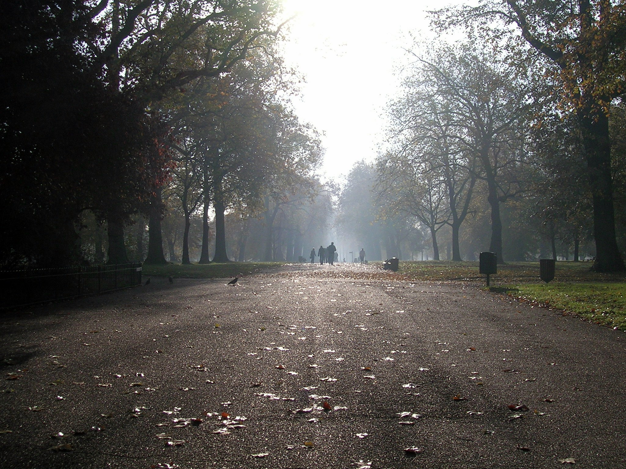 Hyde Park in a late autumn morning